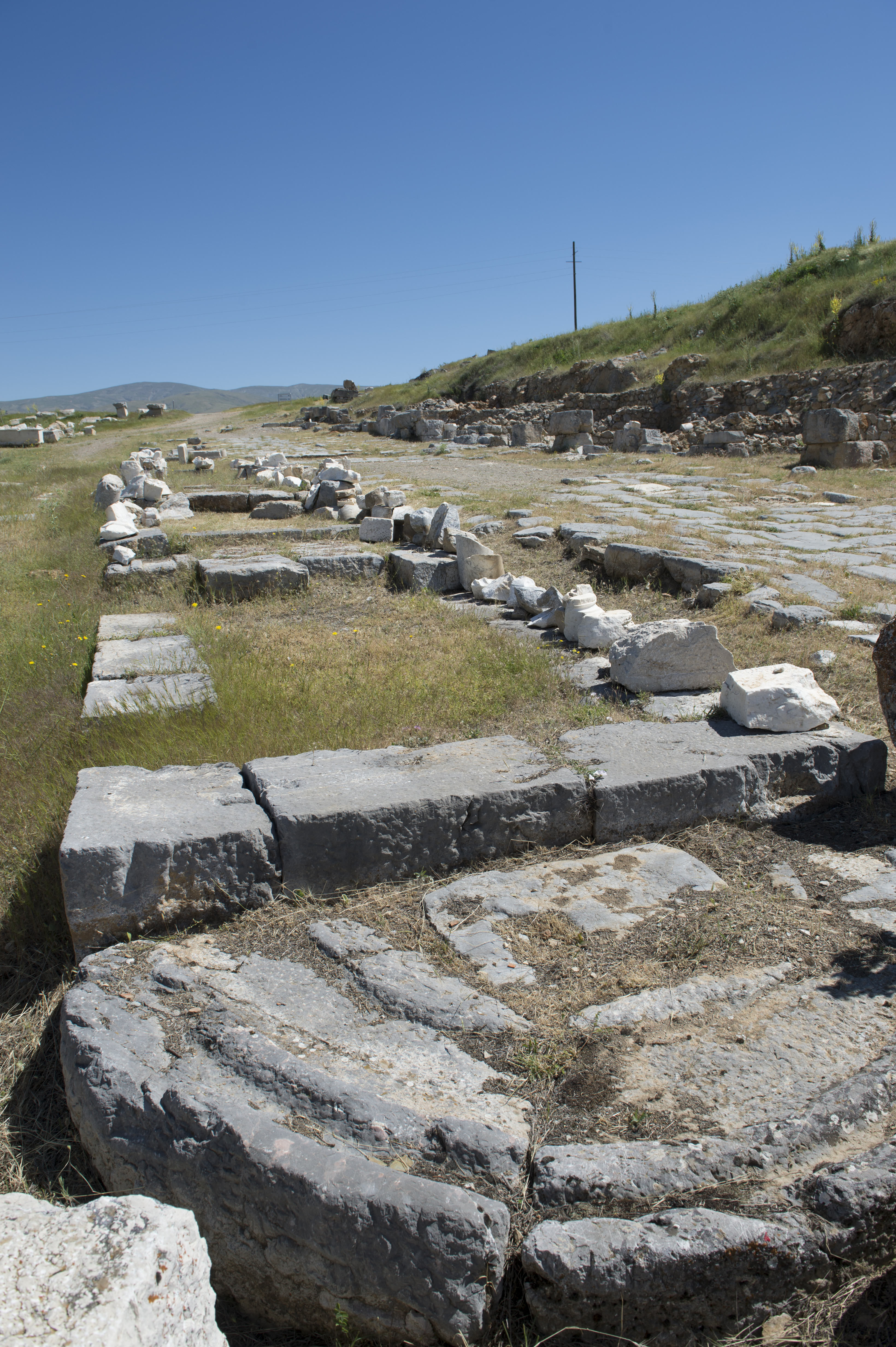 On the main axis of the street through the gate, about 7 m. within the city, the remains of a semi-circular pool can be seen. This stands at the bottom of a ‘waterfall’ which consisted of a series of tanks, 2 meters wide and 0,80 m high. These rose up the hill to the Decumanus Maximus (the main east-west-oriented road of the city), and water flowed down the hill from tank to tank. Correspondent: J.M.Criel, Antwerpen. Source: ‘Pisidian Antioch’ – Ünal Demirer, archaeologist. (Ankara, 1997).